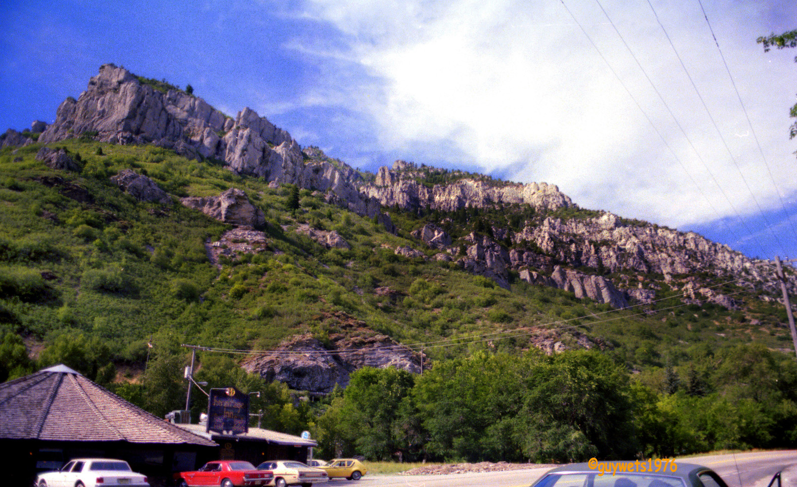 Hermitage Inn Ogden Canyon 1976 Today Alaskan Inn & Spa